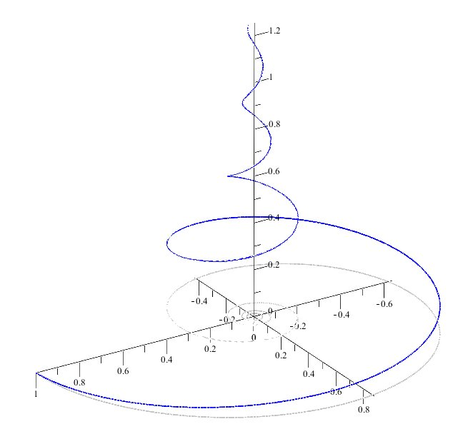 Example of a space curve